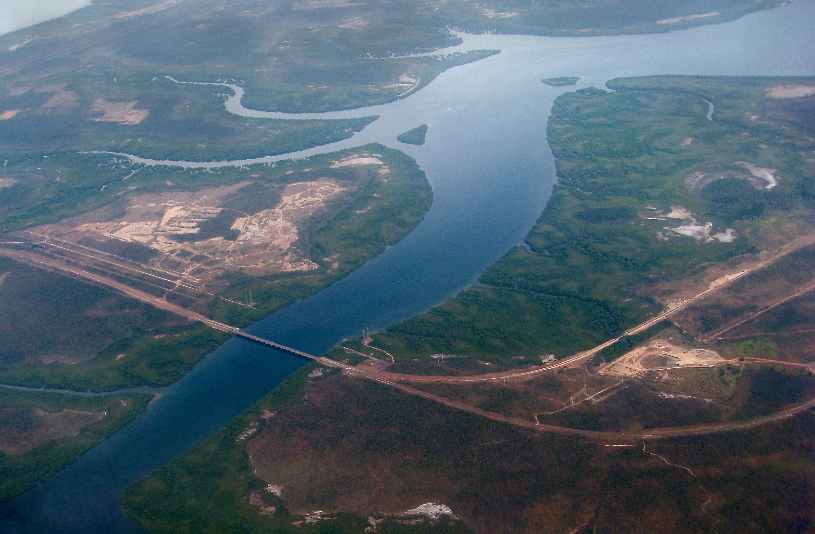 The Elizabeth River bridge across Elizabeth River, upstream the East Arm of Darwin Harbour, carries both the Channel Island road and the Darwin - Alice Springs - Adelaide railway